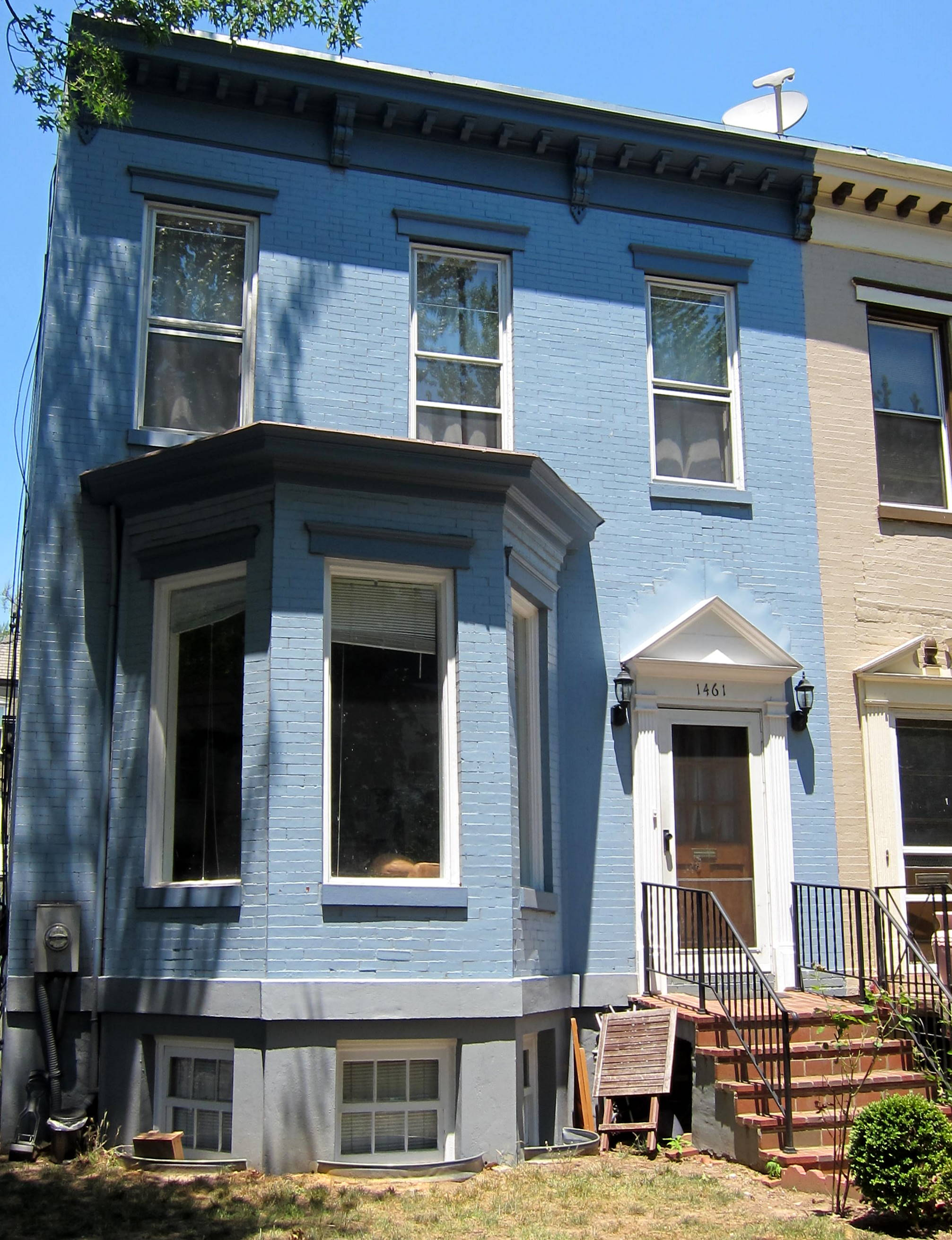 The former residence of Georgia Douglas Johnson and "site of one of the greatest literary salons of the Harlem Renaissance", located at 1461 S Street, N.W., in the Logan Circle neighborhood of Washington, D.C. Built in 1880, the Italianate-style home is designated as a contributing property to the Greater U Street Historic District, listed on the National Register of Historic Places in 1998. From The New Georgia Encyclopedia - "Johnson called her home at 1461 S Street Northwest in Washington the Half-Way House, in the spirit of her willingness to provide shelter for those in need. On Saturday nights she hosted open houses attended by such Harlem Renaissance writers as Louis Alexander, Gwendolyn Bennett, Marita Bonner, Countee Cullen, Clarissa Scott Delaney, Jessie Redmon Fauset, Angelina Weld Grimké, Langston Hughes, Alain Locke, Kelly Miller, May Miller, Bruce Nugent, Willis Richardson, Anne Spencer, Jean Toomer, and E. C. Williams. The gathering became known as the S Street Salon, and prominent writers often debuted new works at the gatherings. The writer Zora Neale Hurston was a regular at the salon as well."